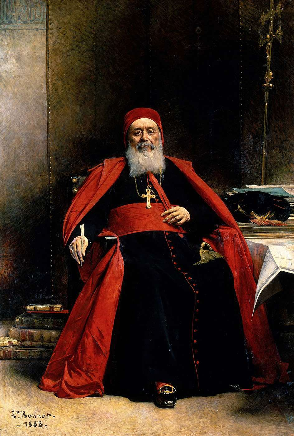 Monsignor Charles Martial Lavigerie (1825-1892) was the founder of the White Fathers; he contributed to the spread of social Christian and educational institutions within French Algeria. This oil on canvas was painted in 1888 by Léon Bonnat (1833-1922), who was a French painter and a portraitist. It was purchased by the French State for the national collection and was initially displayed at the Luxembourg Museum. Subsequently, it was displayed at exhibitions which took place in Moscow and in Chicago. Currently, it is on display at the gallery of historical portraits in Versailles. This painting became well known due to the fact that its engraved reproduction was used during the Toast of Algiers, where Bishop Charles Lavigerie urged the French Catholics — most of them fervent Royalists — to join the French republican government.